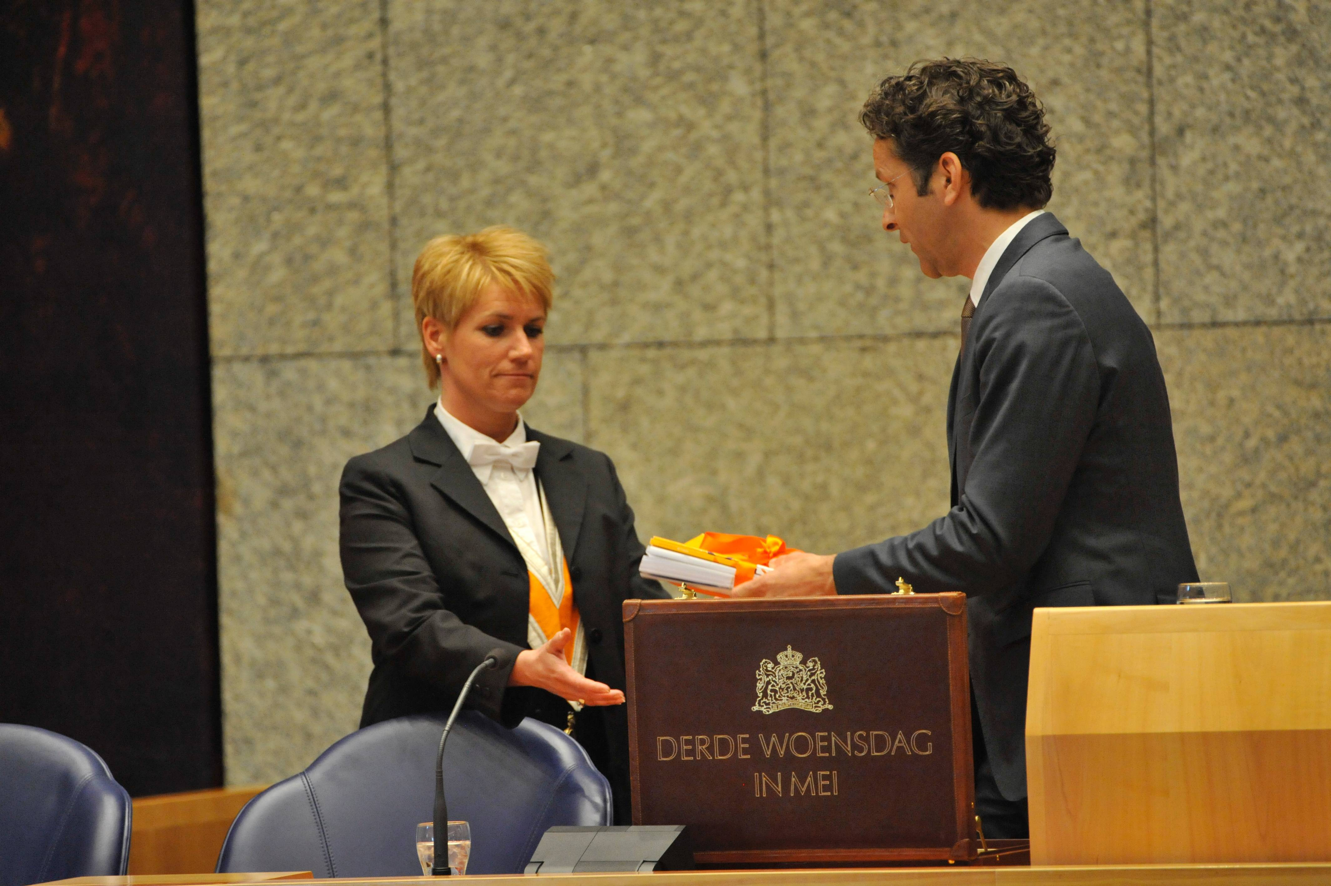 accountability day 2013. Minister Jeroen Dijsselbloem presents account of year 2012 to messenger of House of Representatives.